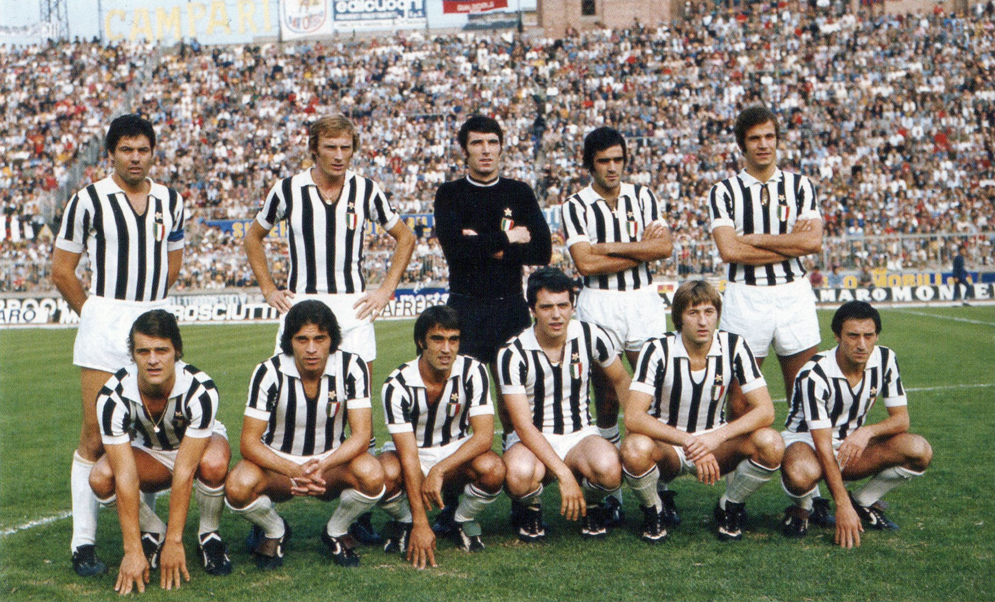 Bologna (Italy), Communal Stadium, September 24, 1972. The line-up of Juventus F.C. took to the pitch prior the away victory versus Bologna F.C. (2-0), Matchday 1 of the Italian League 1972–73 Serie A. From left to right, standing: S. Salvadore (captain), F. Morini, D. Zoff, A. Cuccureddu, L. Spinosi; crouched: F. Capello, F. Causio, P. Anastasi, R. Bettega, G. Marchetti, G. Furino.